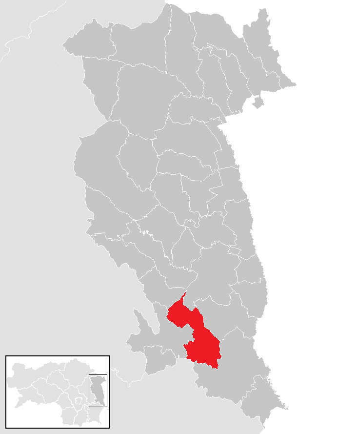 district Hartberg-Fürstenfeld